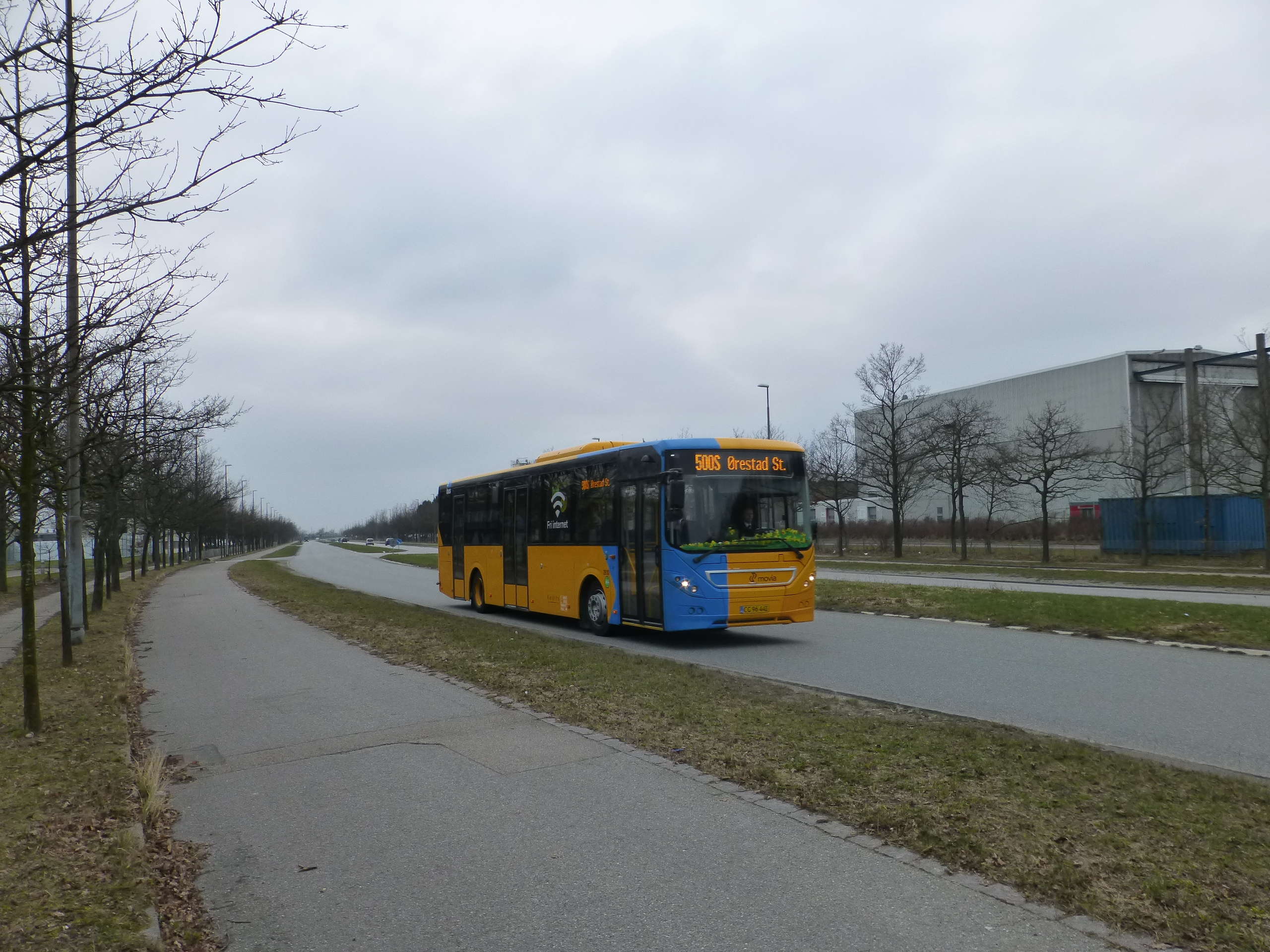 Movia bus line 500S on Stamholmen in Hvidovre in Copenhagen.